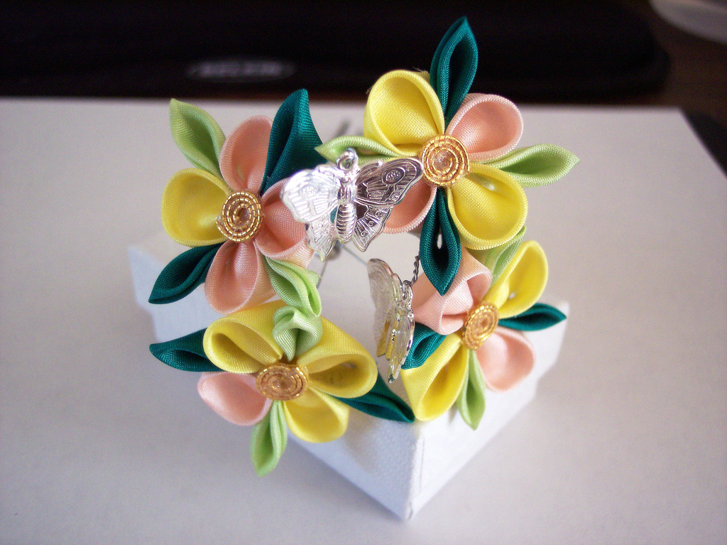 Handmade amateur kanzashi. Represents March.